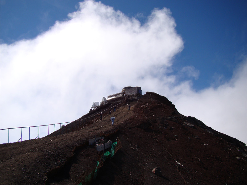 Kengamine Mt.Fuji Shizuoka Japan